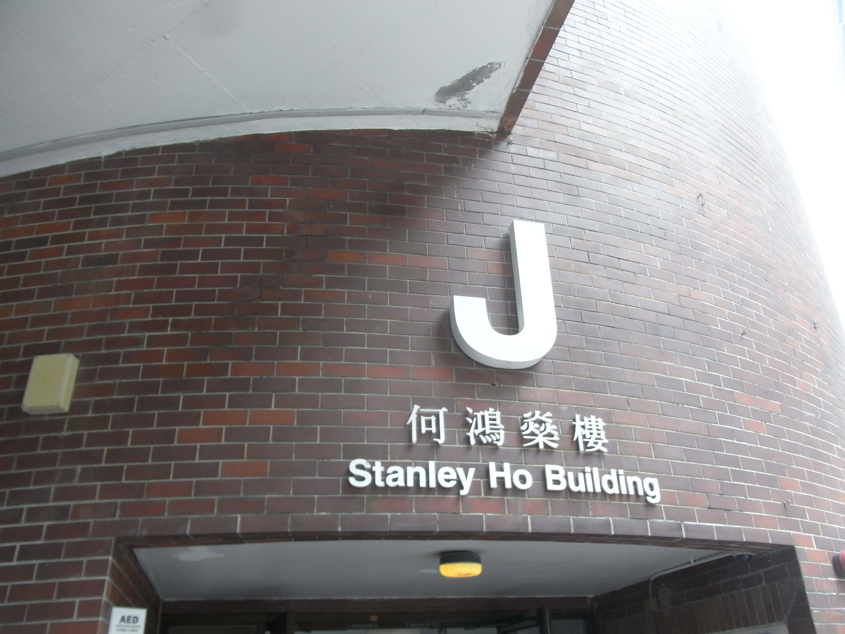 香港理工大學, Sign in Hong Kong Polytechnic University, Hung Hom, Hong Kong